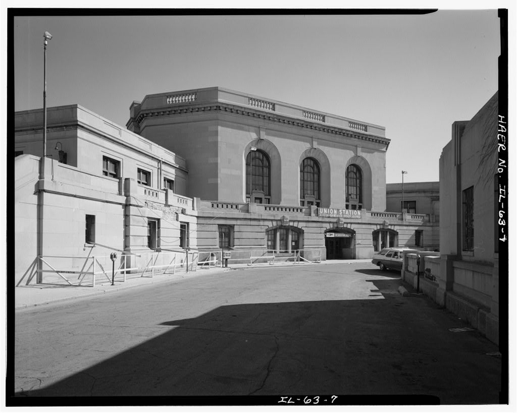 Wide view of center facade, looking south, of Union Station, 50 East Jefferson Street, Joliet, Will County, Illinois. The station was designed by architect Jarvis Hunt. Historic American Buildings Survey, The Library of Congress, Washington, D. C.